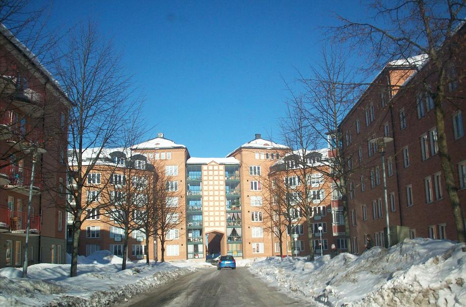 Norra Trängallén in Skövde